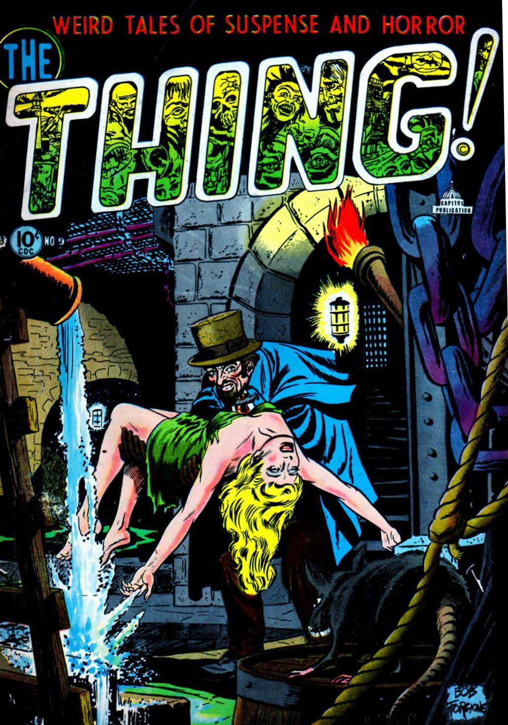 Cover of Charlton Comics' The Thing, number 9, July 1953. Image is in the public domain due to lapsed copyright. This work is in the public domain because it was published in the United States between 1923 and 1963 and although there may or may not have been a copyright notice, the copyright was not renewed. Unless its author has been dead for the required period, it is copyrighted in the countries or areas that do not apply the rule of the shorter term for US works, such as Canada (50 pma), Mainland China (50 pma, not Hong Kong or Macao), Germany (70 pma), Mexico (100 pma), Switzerland (70 pma), and other countries with individual treaties. See Commons:Hirtle chart for further explanation.